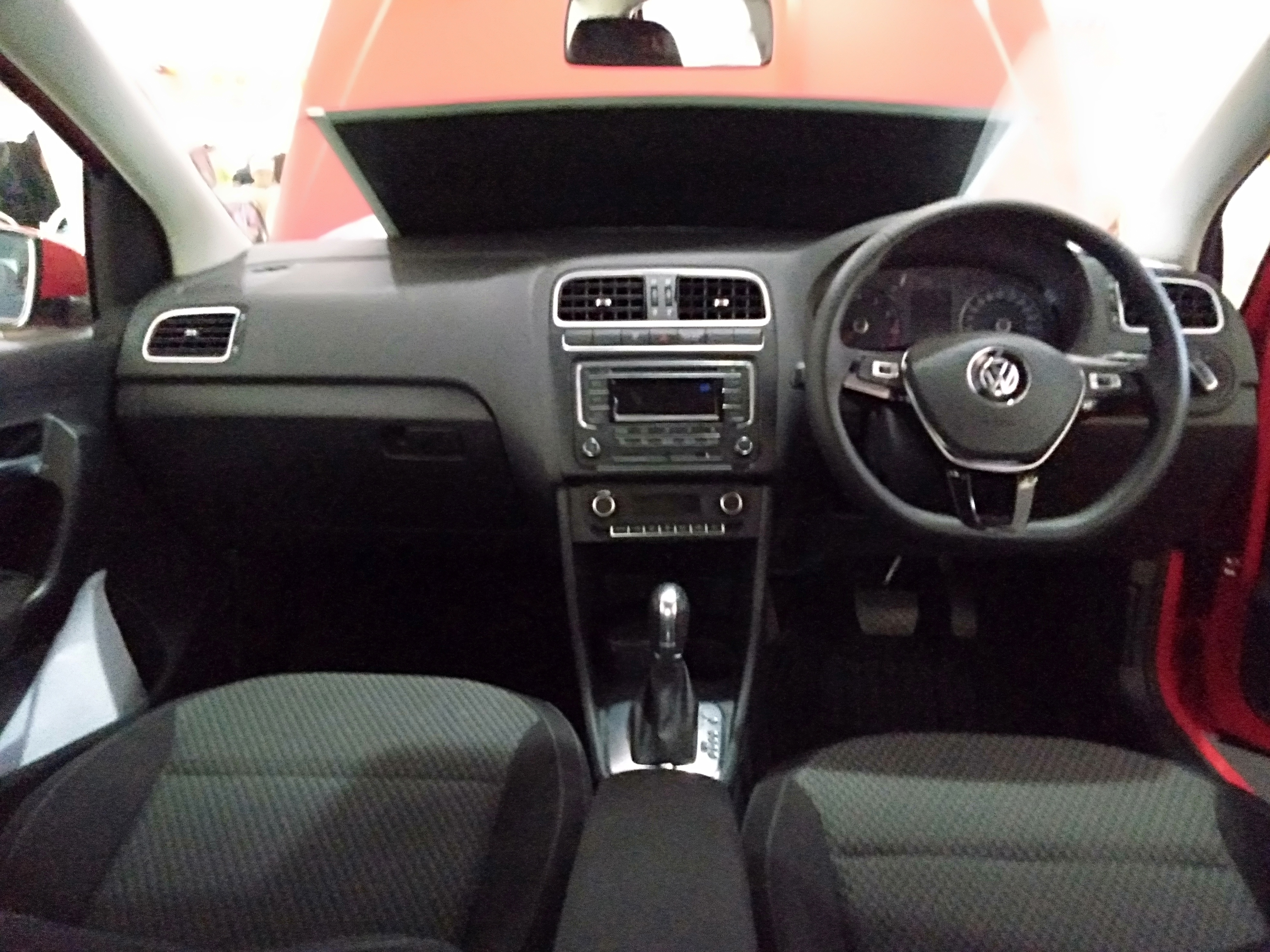 2020 Volkswagen Vento 1.6 TSI sedan interior with bodykits. Photographed in 24th Consumer Fair, International Convenction Centre (ICC), Berakas, Brunei.